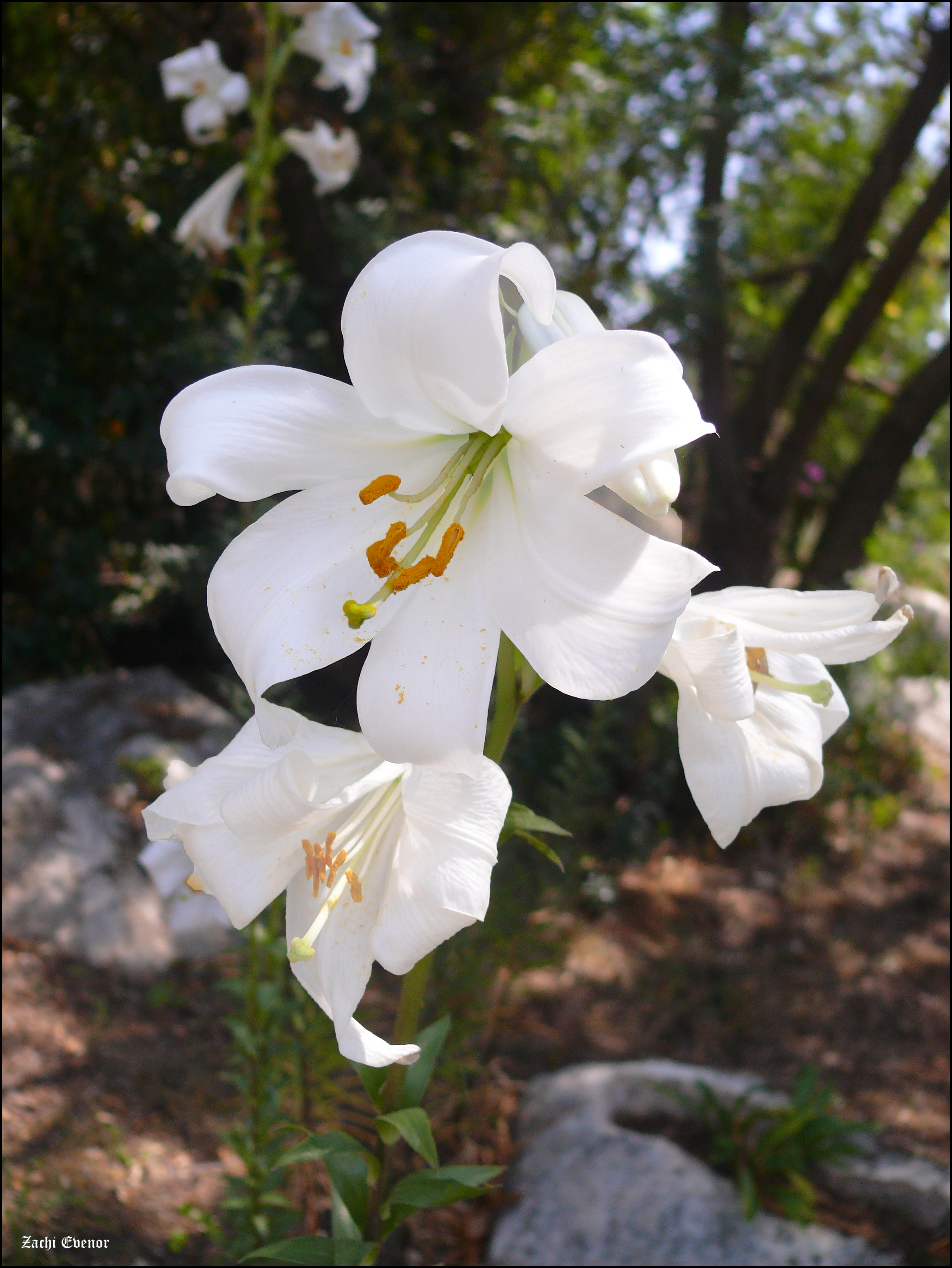 Lilium candidum, Israel